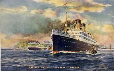 Canadian Pacific ocean liner, RMS Empress of Britain -- postcard